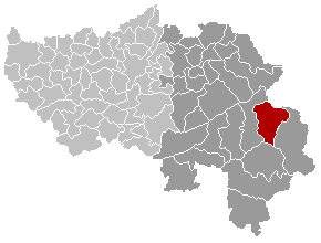 Map, municipality belgium Bütgenbach